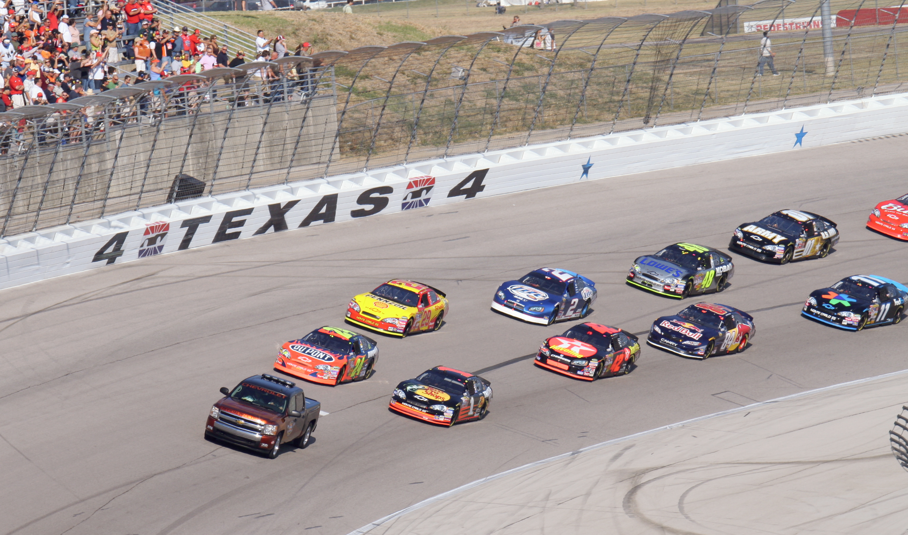 The NASCAR NEXTEL Cup field at Texas Motor Speedway in November 2007Ready for Green